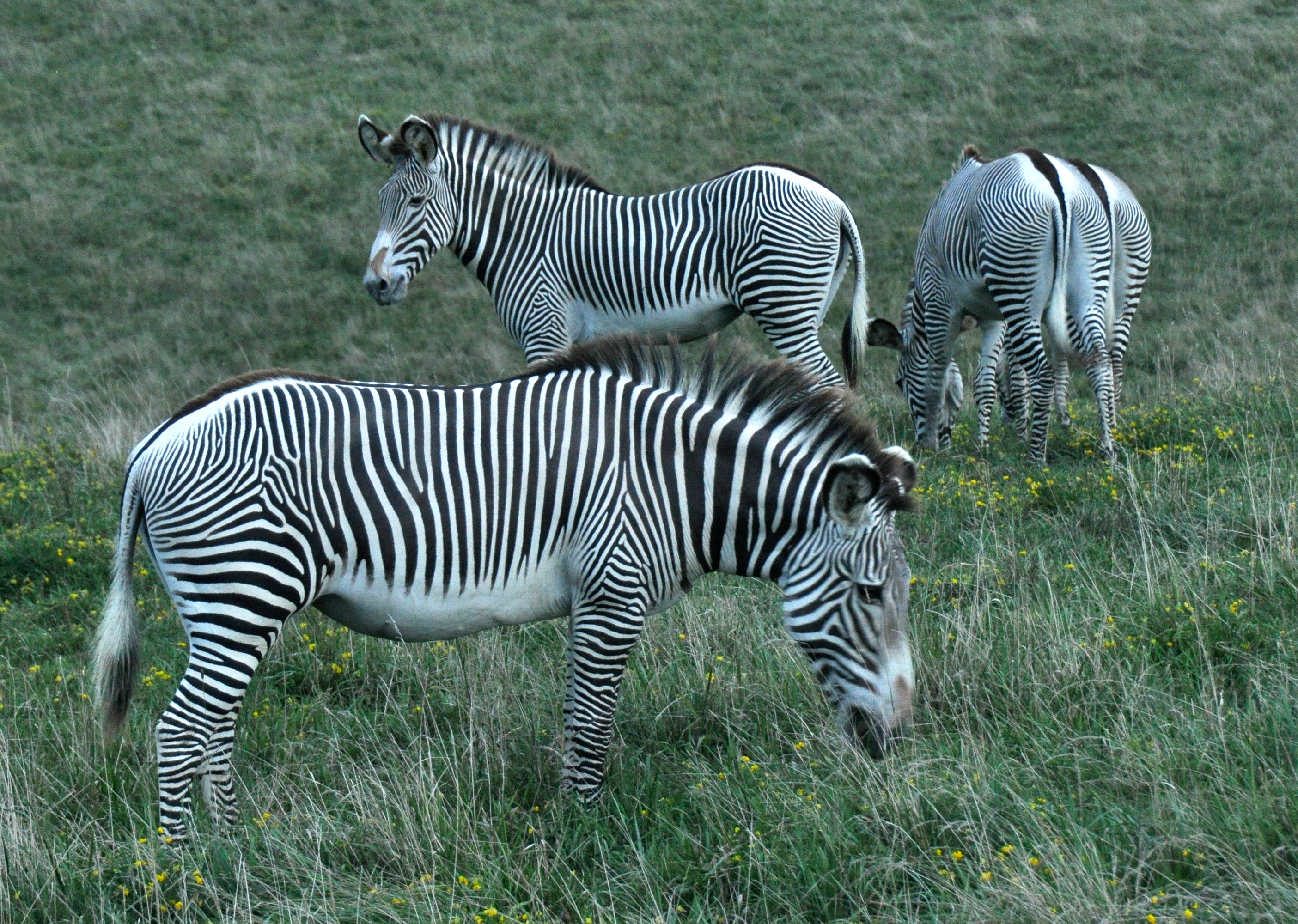 Grevy's Zebra group